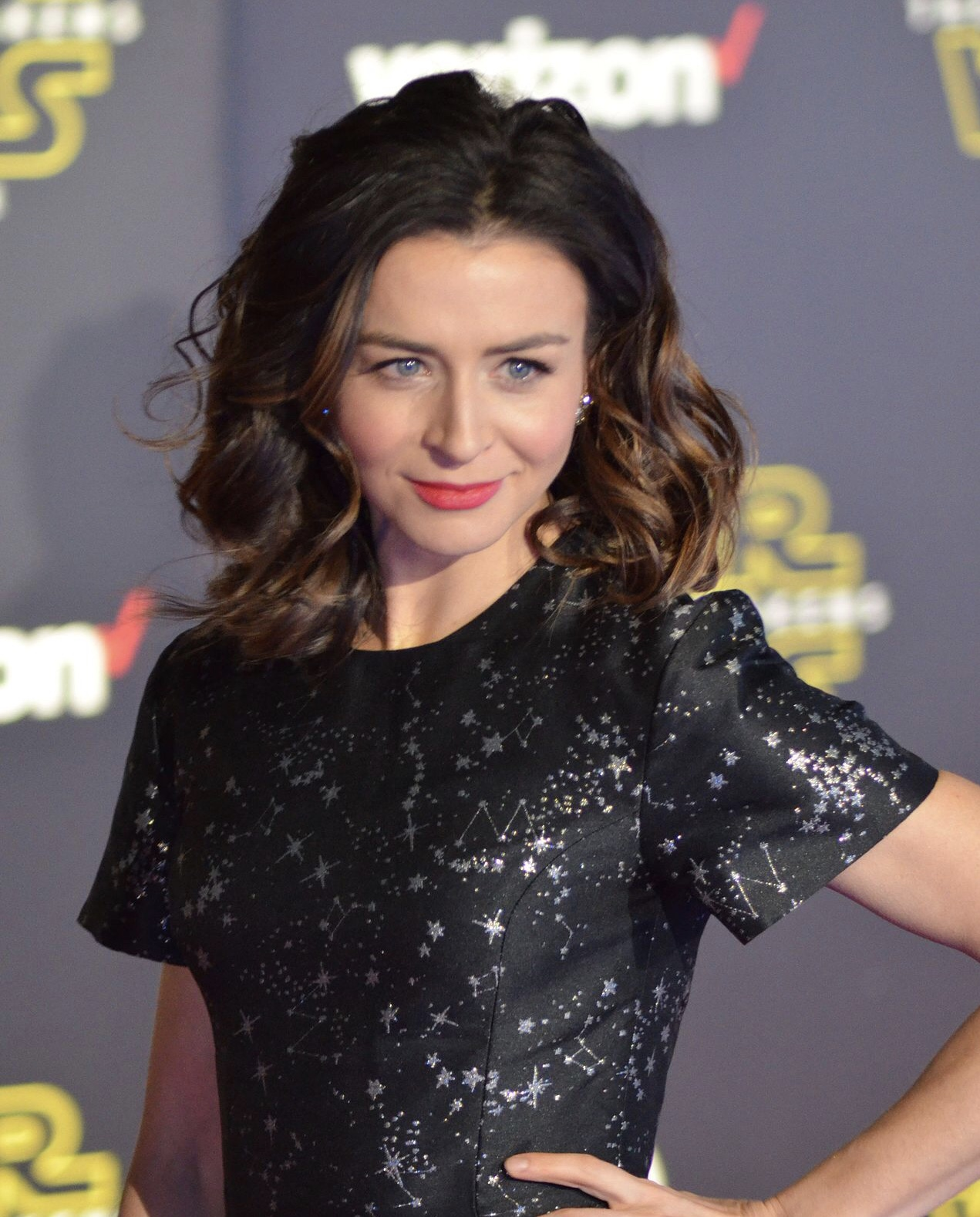 Caterina Scorsone at the World Premiere of Star Wars The Force Awakens Red Carpet -StarWars - DSC 0204 Mingle Media TV Red Carpet Report team were on the red carpet for the World Premiere of Star Wars: The Force Awakens at the El Capitan Theatre, the TCL Chinese and the Dolby Theater in Hollywood. Star Wars: The Force Awakens, opens in theaters December 18, 2015 For video interviews and other Red Carpet Report coverage, please visit and follow us on Twitter and Facebook at: About Star Wars: The Force Awakens The May 25, 1977 theatrical debut of Star Wars --- on a scant 32 screens across America -- was destined to change the face of cinema forever. An instant classic and an unparalleled box office success, the rousing "space opera" was equal parts fairy tale, western, 1930s serial and special effects extravaganza, with roots in mythologies from cultures around the world. From the mind of visionary writer/director George Lucas, the epic space fantasy introduced the mystical Force into the cultural vocabulary and it continues to grow, its lush universe ever-expanding through film, television, publishing, video games and more. Visit Star Wars at Subscribe to Star Wars on YouTube at Like Star Wars on Facebook at Follow Star Wars on Twitter at Follow Star Wars on Instagram at Follow Star Wars on Tumblr at For more of Mingle Media TV’s Red Carpet Report coverage, please visit our website and follow us on Twitter and Facebook here